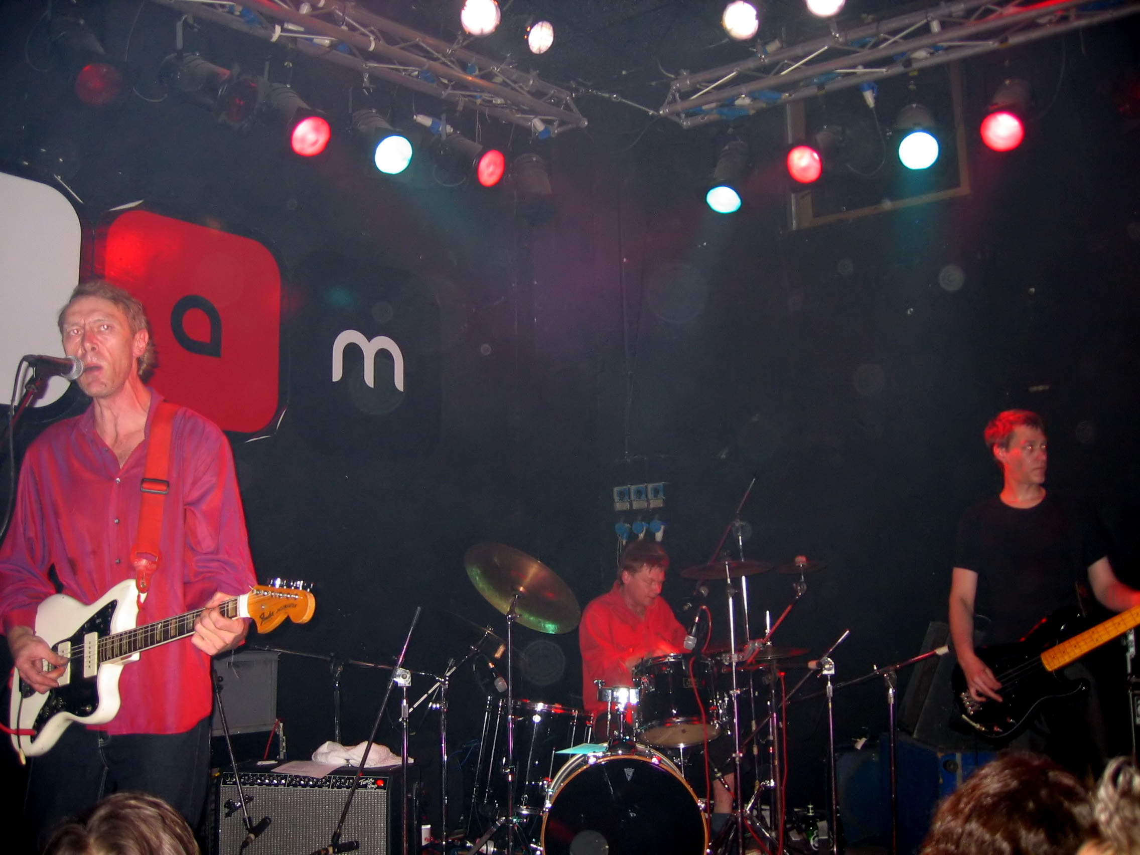 British rock band Red Lorry Yellow Lorry